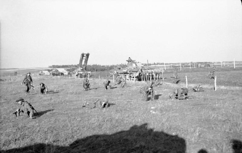 The British Army in North-west Europe 1944-45 Churchill bridgelayers, Sherman flail tanks and infantry during the assault on Le Havre, 13 September 1944.